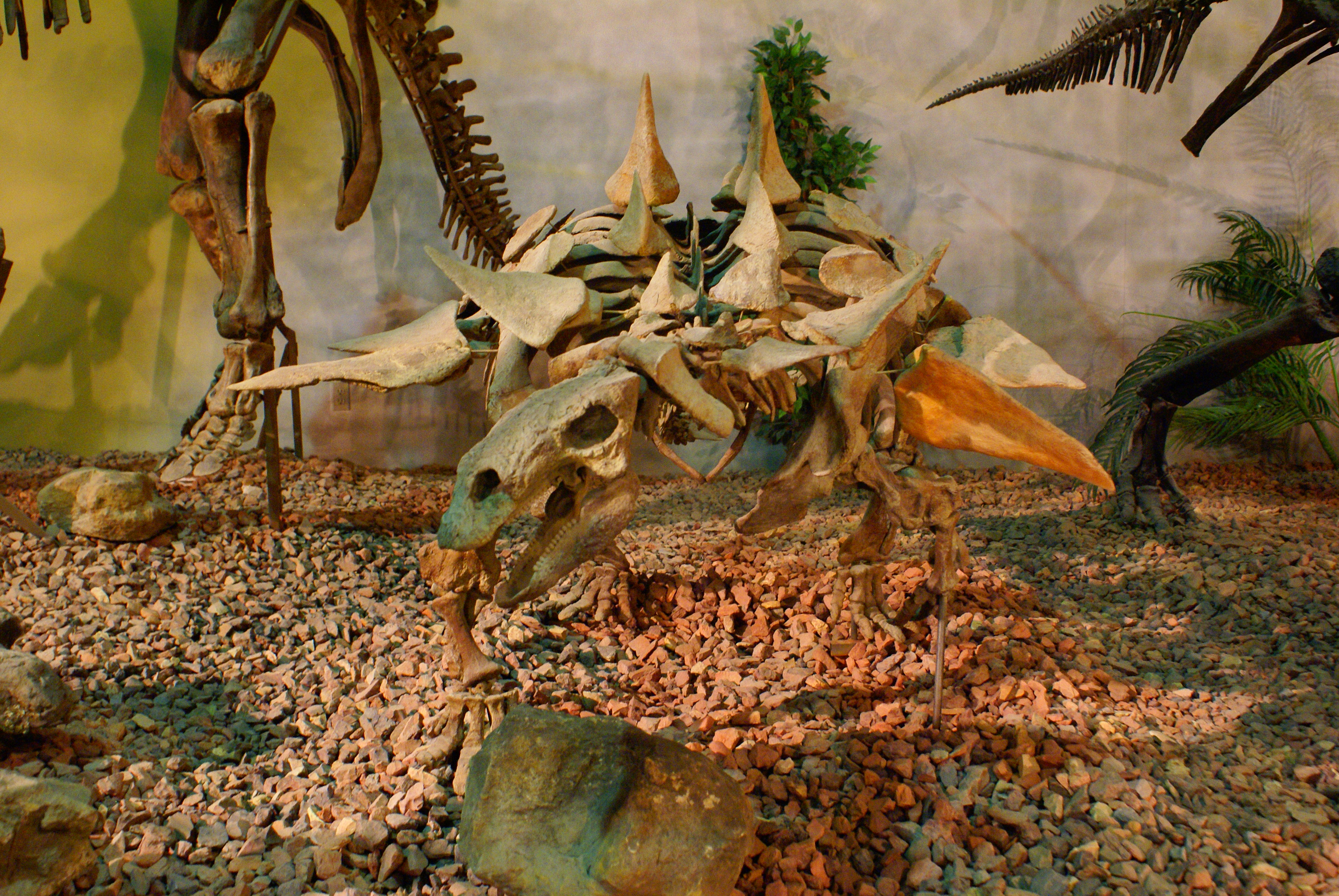 Gastonia, Wyoming Dinosaur Center